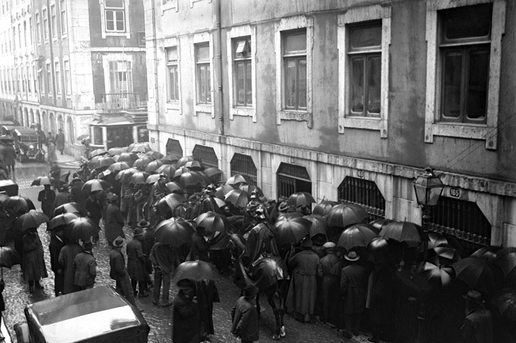 Crowds rush to the Bank fo Portugal to exchange 500 escudo banknotes fraudulently printed during the Portuguese Bank Note Scandal of 1925